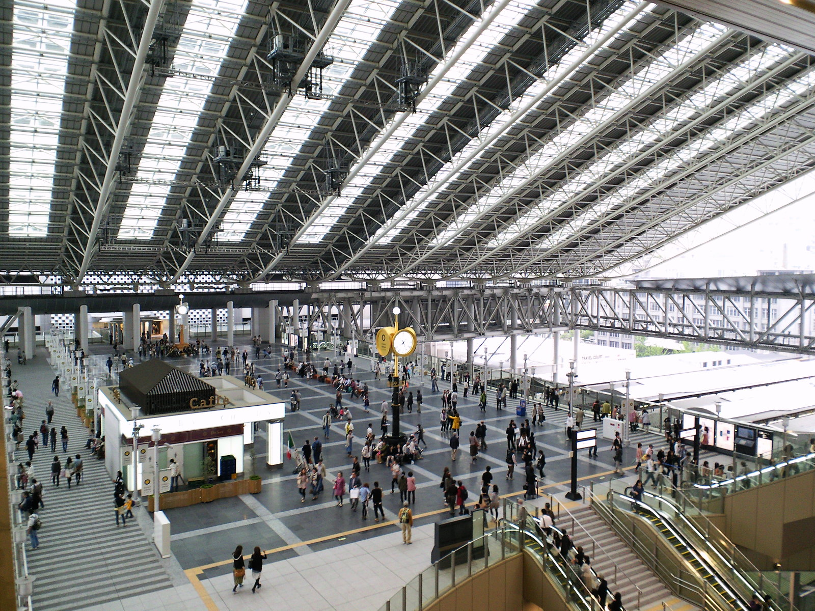 Osaka Station City, Osaka, Japan